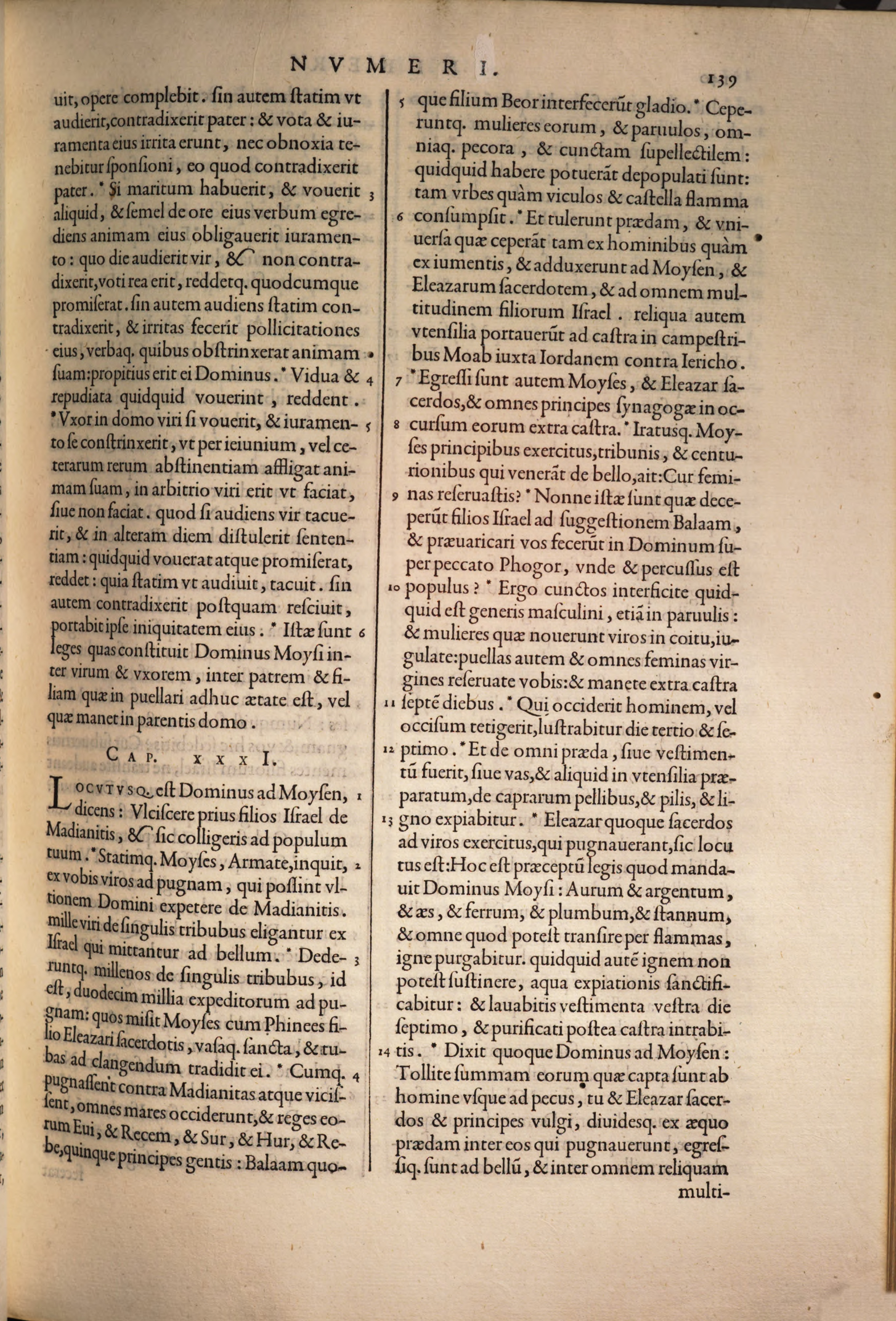 Verse 5, which corresponds to verses 10-17 in the mainstream versification of Robert Estienne, reads: "Vxor in domo viri si vouerit, & iuramento se constrinxerit, vt per ieinium, vel cetarum rerum abstinentiam affligat animam suam, in arbitrio viri erit ut faciat, siue non faciat. quod si audiens vir tacuerit, & in alteram diem distulerit sentiam: quidquid vouerat atque promiserat, reddet: quia statim ut audiuit, tacuit. sin autem contradixerit postquam resciut, pottabit ipse iniquitatem eius." The end of verse 11 ("cum se voto constrinxerit et juramento") is omitted. Verses 12 and 13 ("12 si audierit vir, et tacuerit, nec contradixerit sponsioni, reddet quodcumque promiserat. 13 Sin autem extemplo contradixerit, non tenebitur promissionis rea : quia maritus contradixit, et Dominus ei propitius erit.") are omitted.